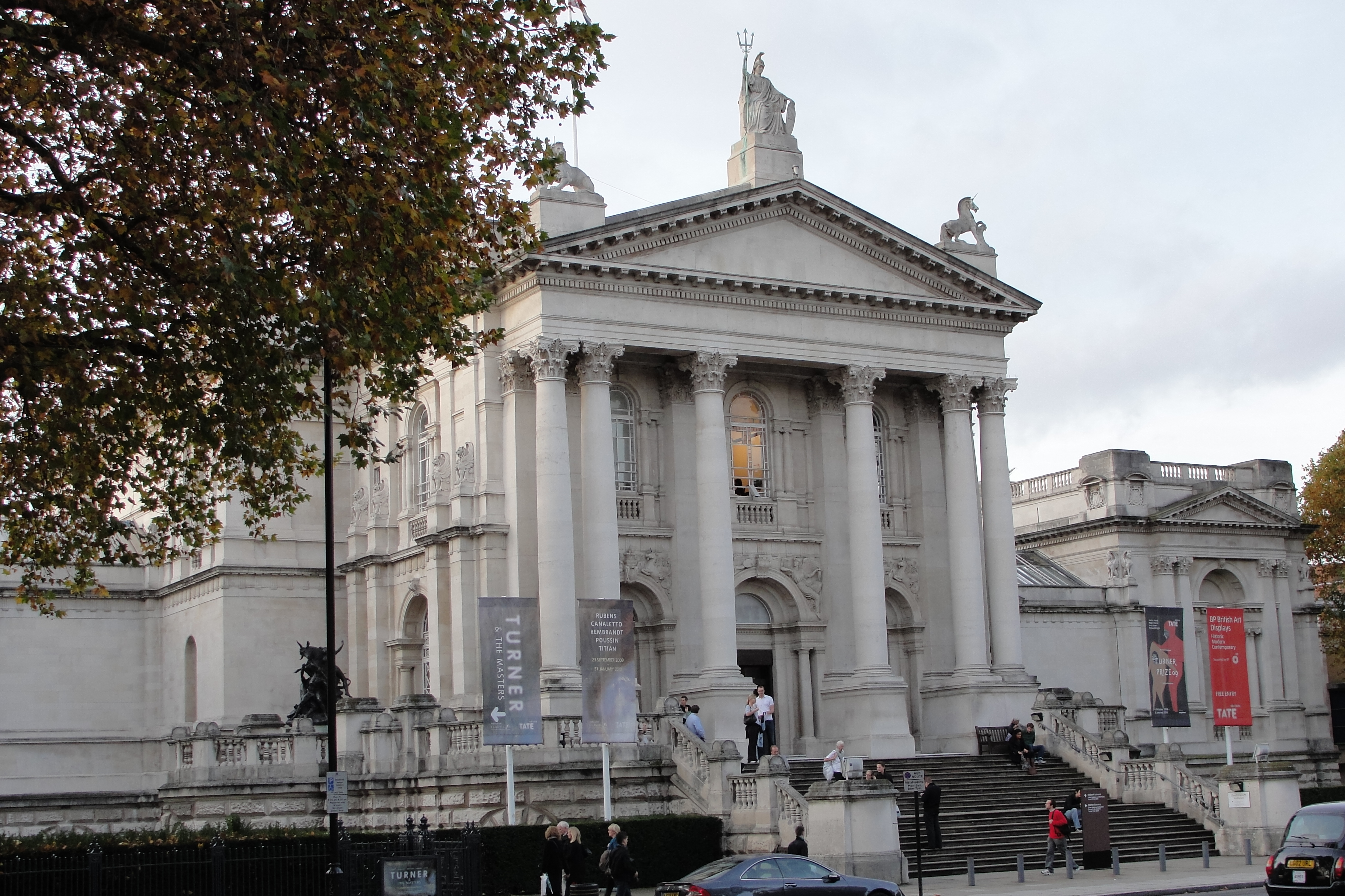 View of the Tate from the Themse